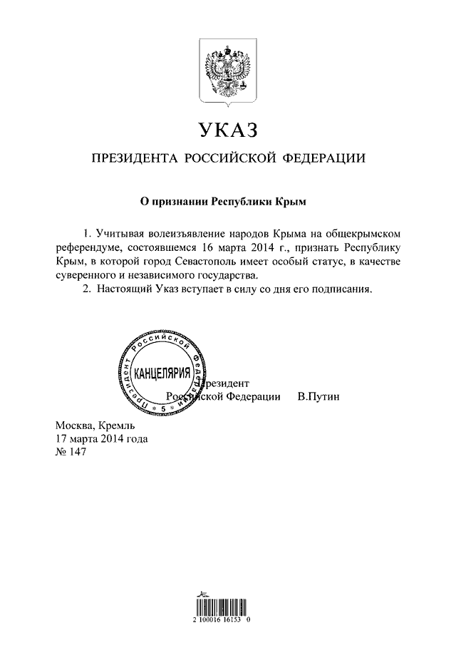 Decree on the recognition of the Republic of Crimea